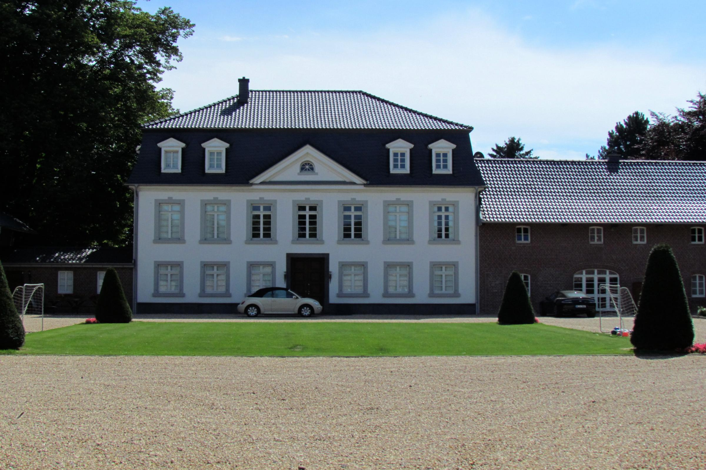 This is a photograph of an architectural monument. 09